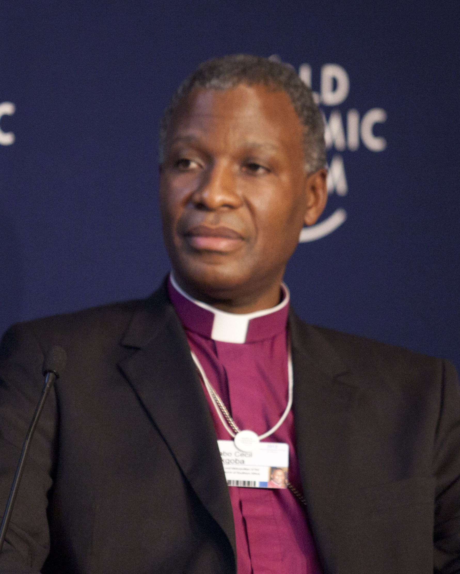 ADDIS ABABA/ETHIOPIA, 09-11 MAY 2012 - Thabo Cecil Makgoba, Archbishop and Metropolitan Anglican Church of Southern Africa South Africa, captured during the Fostering Political Stability Session at the World Economic Forum on Africa held in Addis Ababa, Ethiopia, 9-11 May, 2012.